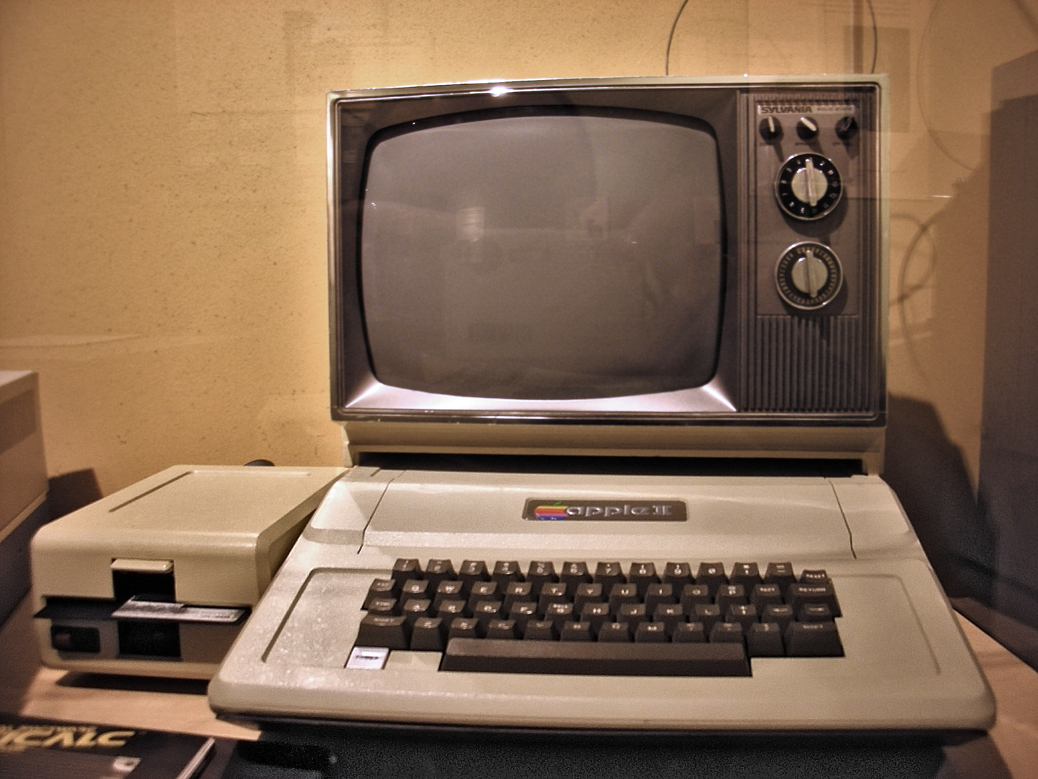 An Apple II, one of the first personal computers. (The photo is modified version of File:Science_museum_025.jpg.)